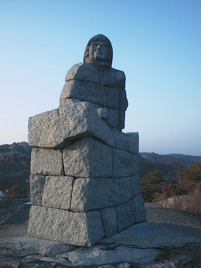 Ulabrand Monument Ula, Larvik Norway